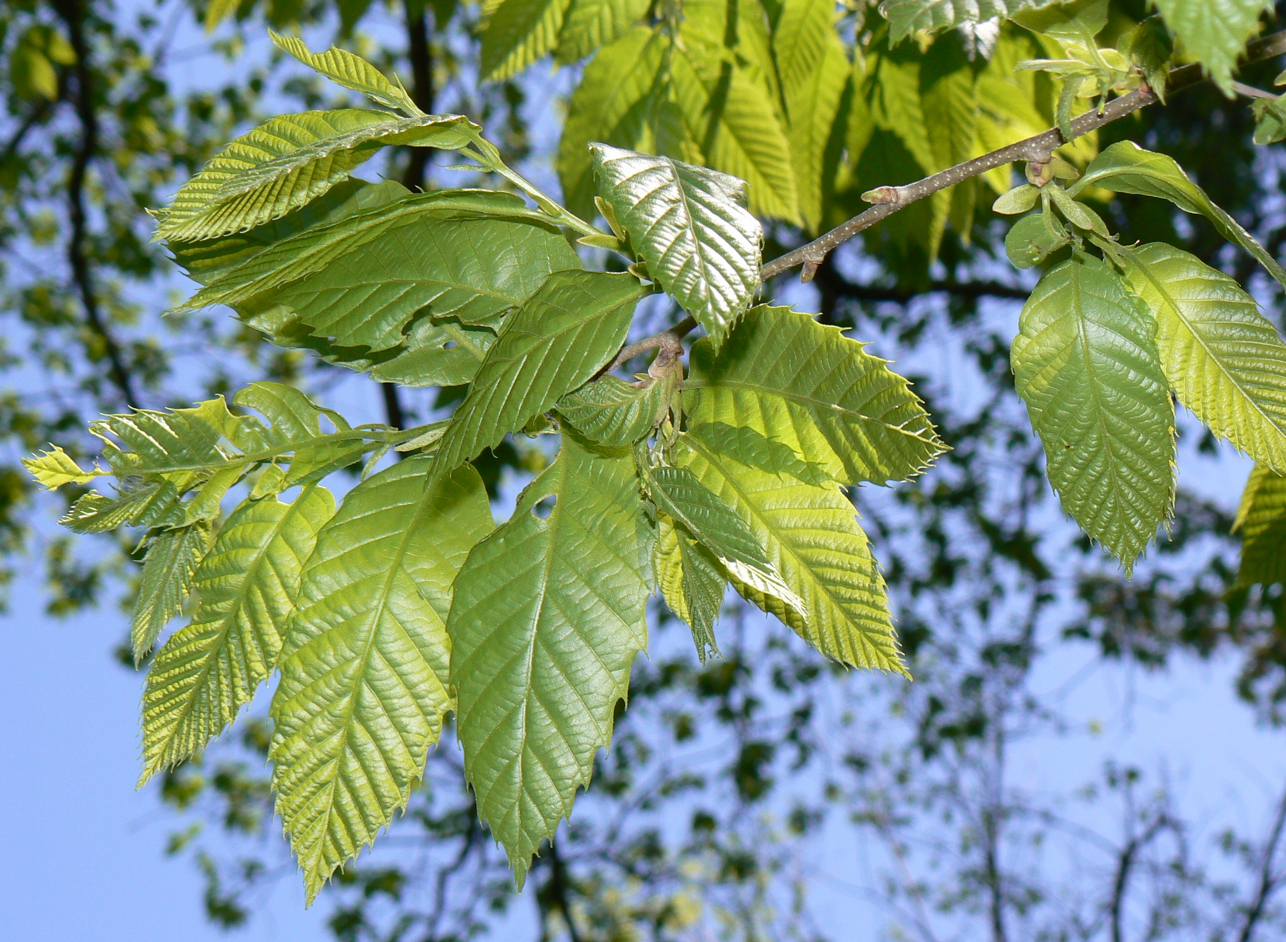 Chinese Chestnut (Castanea mollissima) springtime leaves